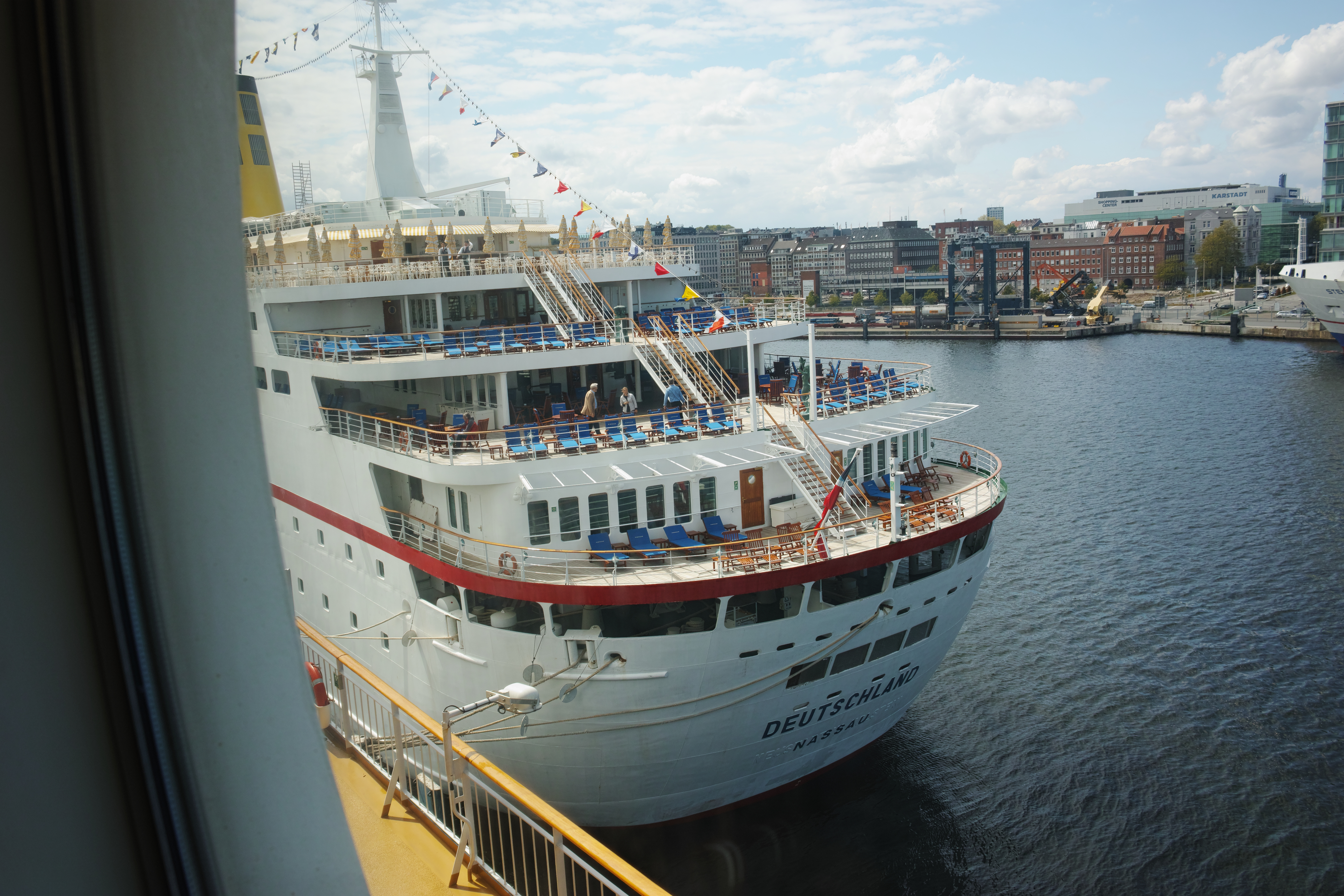 "Deutschland" in Kiel on 9 June 2015. The "Deutschland", already sold to new owners, is used in summer as a replacement ship by the operator Plantours, standing in whilst their vessel "Hamburg" is being repaired. Picture taken from "Color Fantasy"; note the Deutschland's new home port of Nassau.